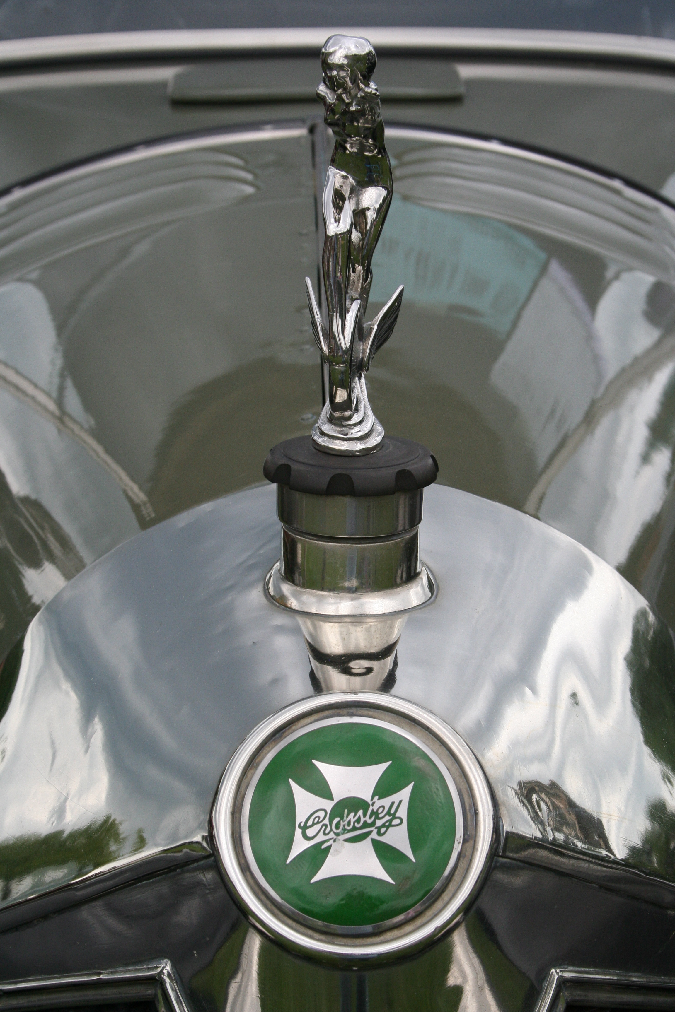 Crossley radiator badge